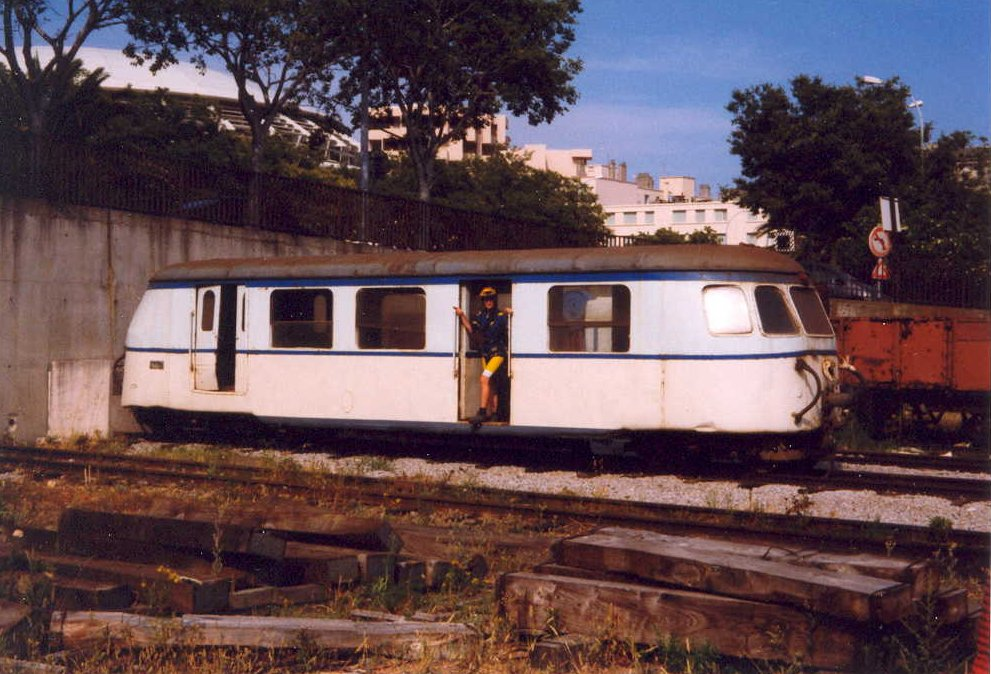 Corsica Railways : Billard trailer type R 210 of 1938, series XR 1-8. Used up to recent years with the CFD railcars X 2000 on Bastia - Calvi services.